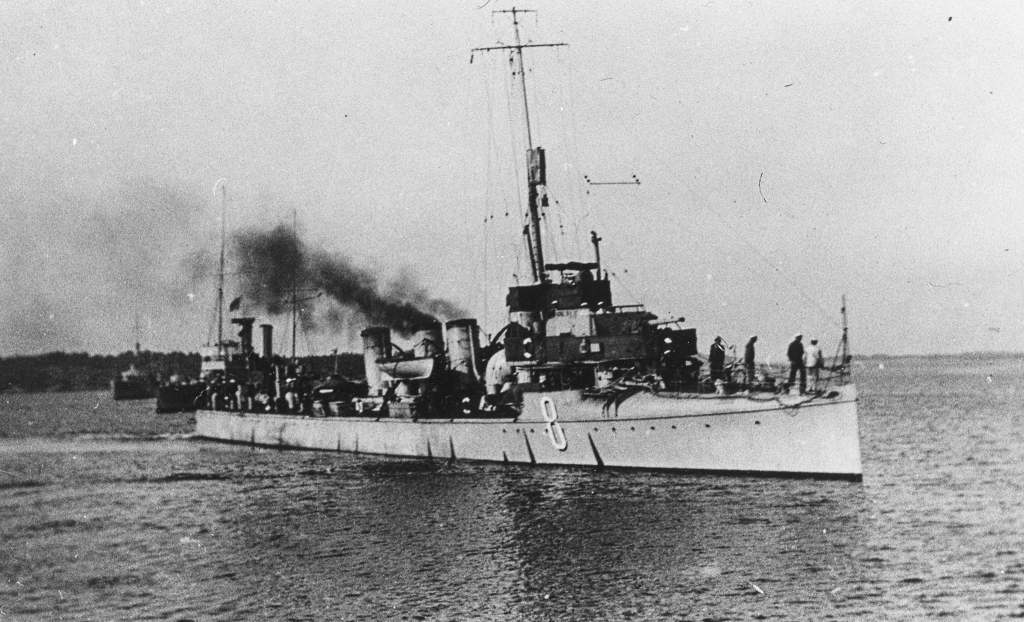 Swedish destroyer HMS Munin as she looked on the 17 July, 1927. She distinguish herself from HMS Hugin by her slightly higher bridge. From Curt S. Olsson's collections.